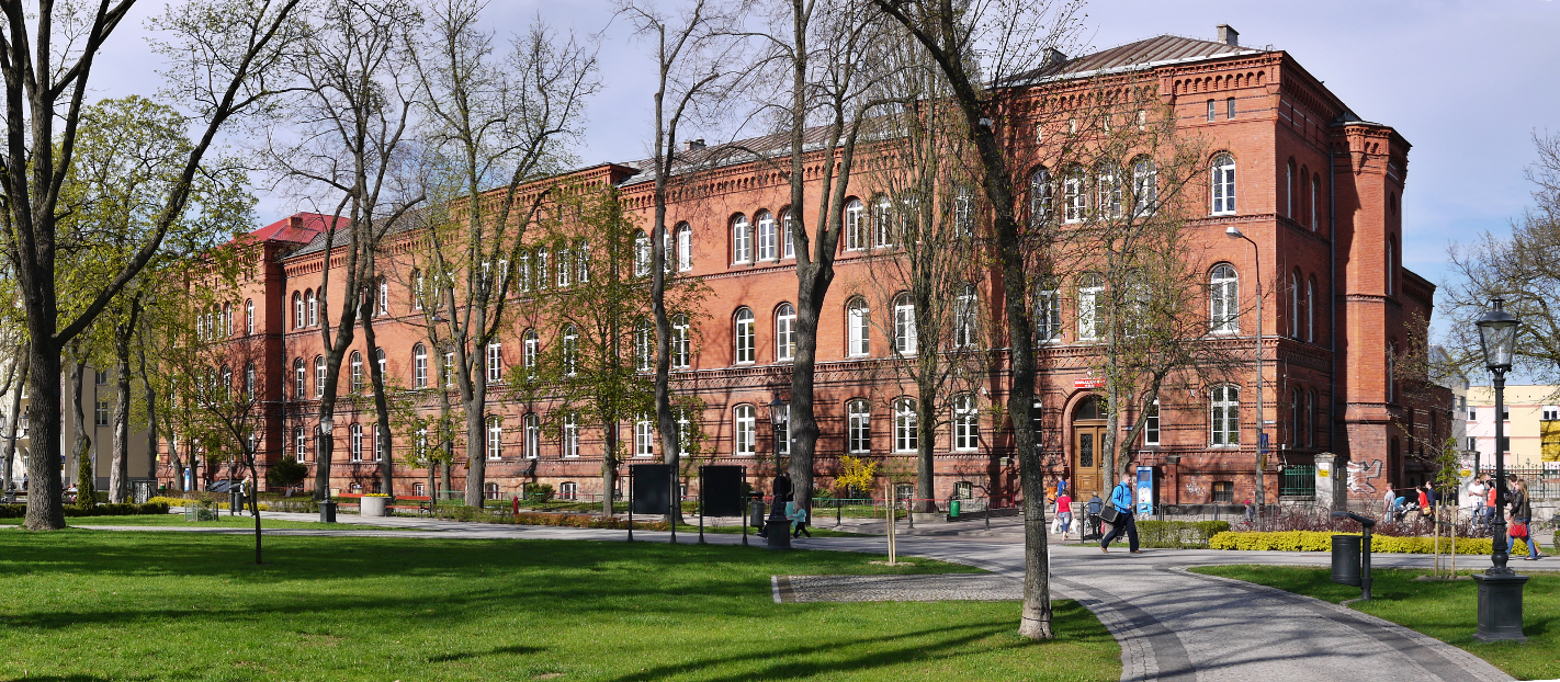 The building of the Primary School No 1 and No 2 in Ełk - May 2013